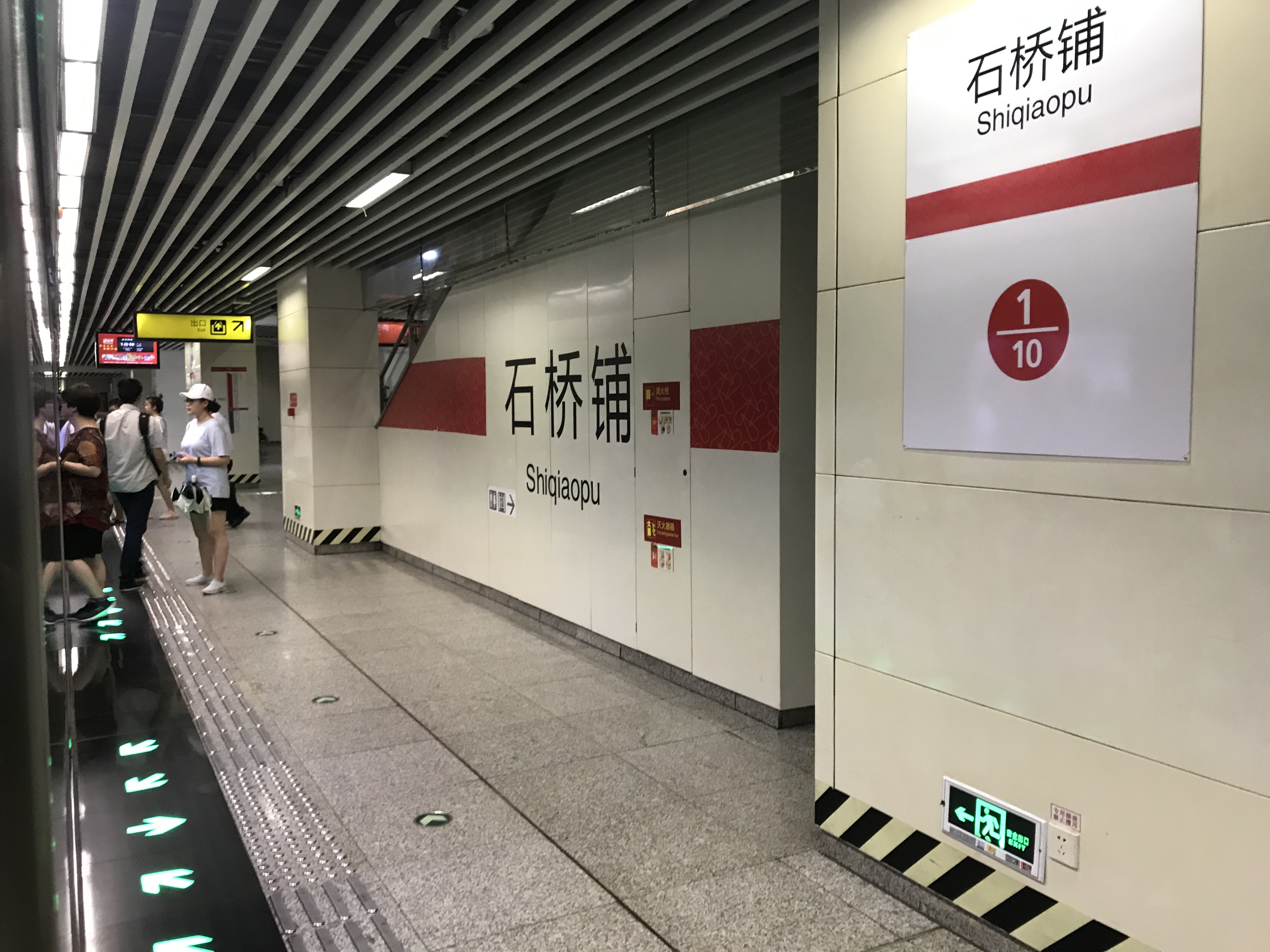 201908 Shiqiaopu Station Platform